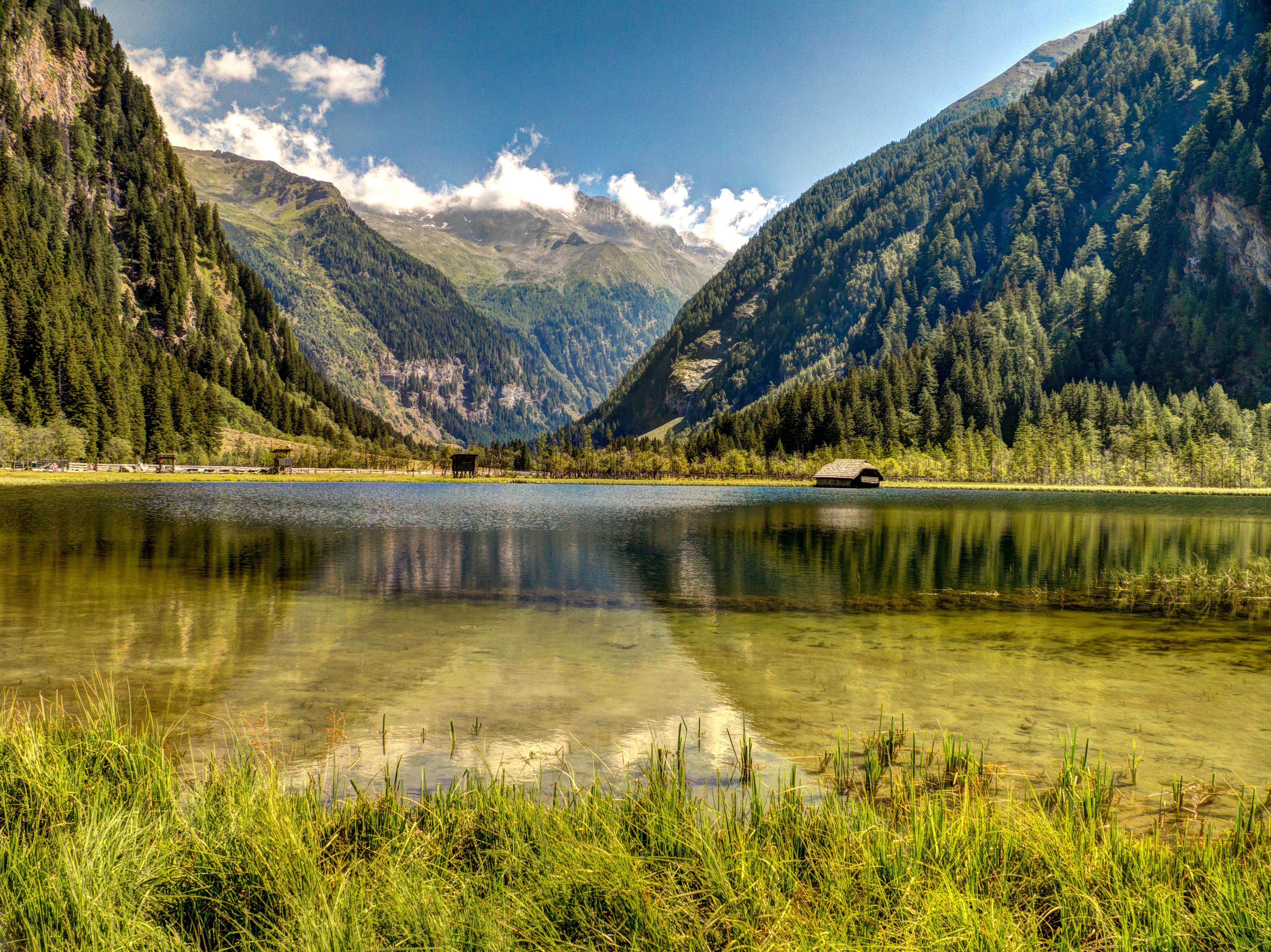 Stappitzer See in Seebachtal near Mallnitz in Carinthia / Austria / EU. This media shows the natural monument in Carinthia with the ID Sp 29.